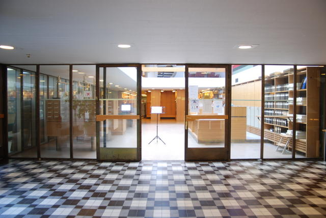 Entrance to the reading rooms of the National Archives of Finland